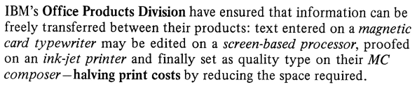 original description: I wrote and set this sample on an IBM MC Composer, after which it was printed offset litho. This image is scanned from the printed version, so it will not have the edge fidelity of the original paste-up. Click the thumbnail below* to see this sample compared with output from other devices of the time. *[Refers to File:Office Products output samples 1980-81.png.]